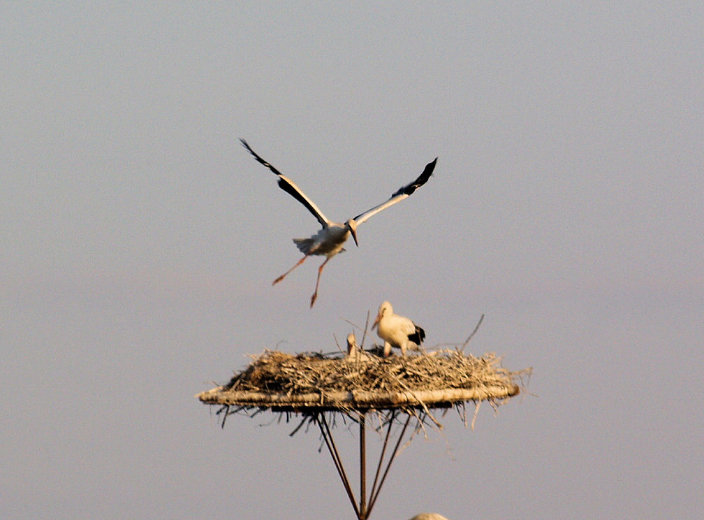 Padule di Bolgheri, Italy